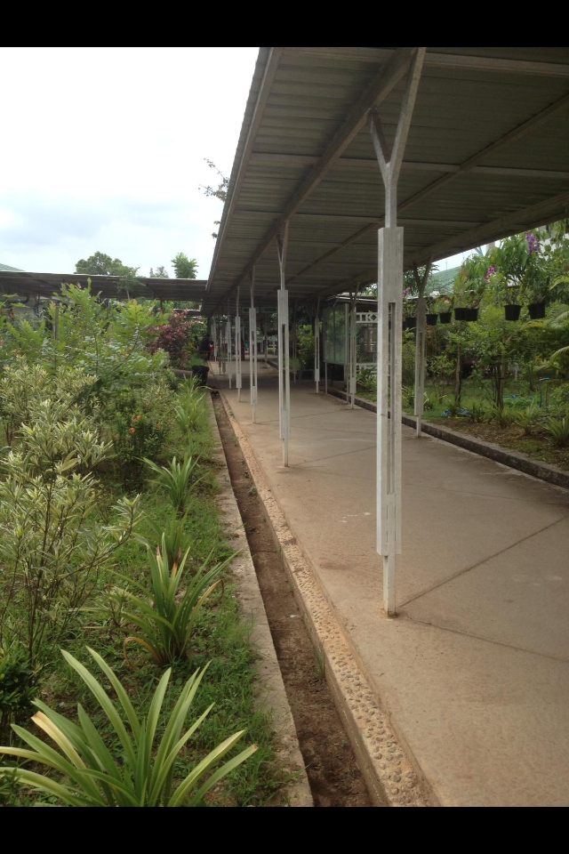 The main entrance of the Mae Tao Clinic, Mae Sot, Thailand.